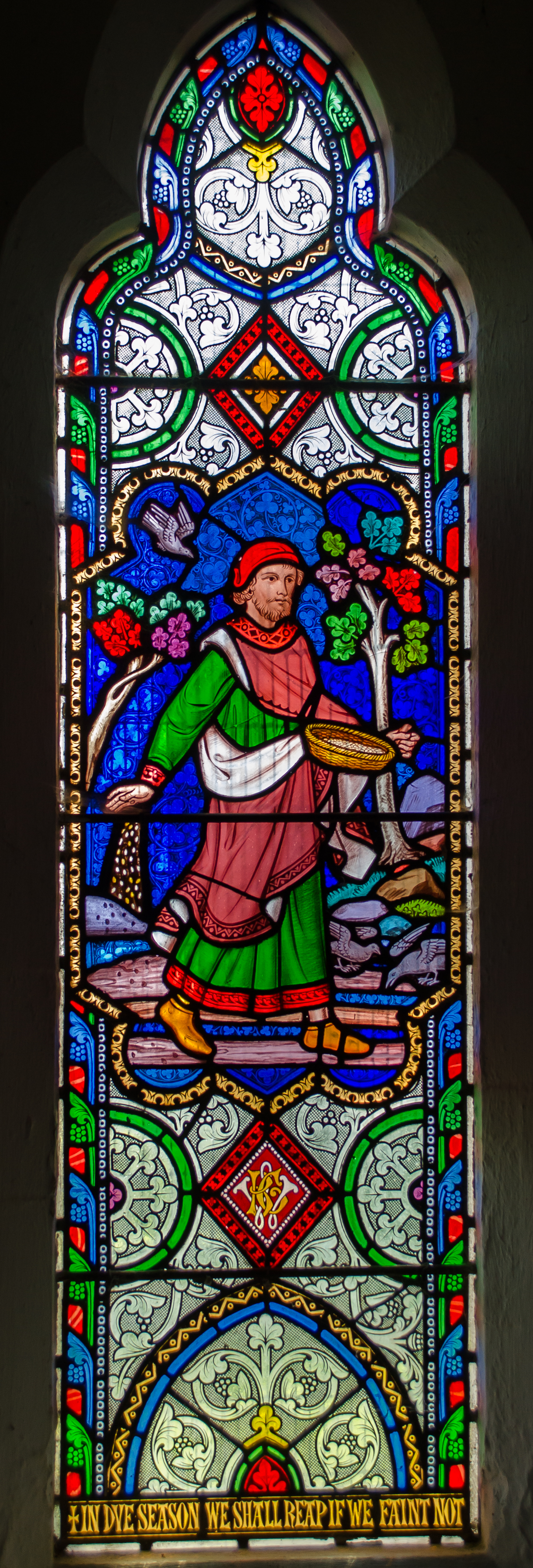 The Sower by W. Wailes, 1864 Galatians 6:9 "And let us not be weary in well doing: for in due season we shall reap, if we faint not".